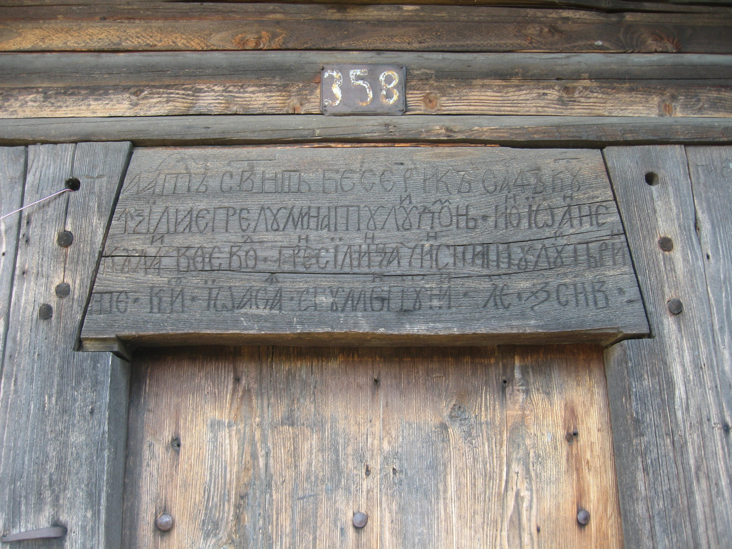 Biserica de lemn din Bilca